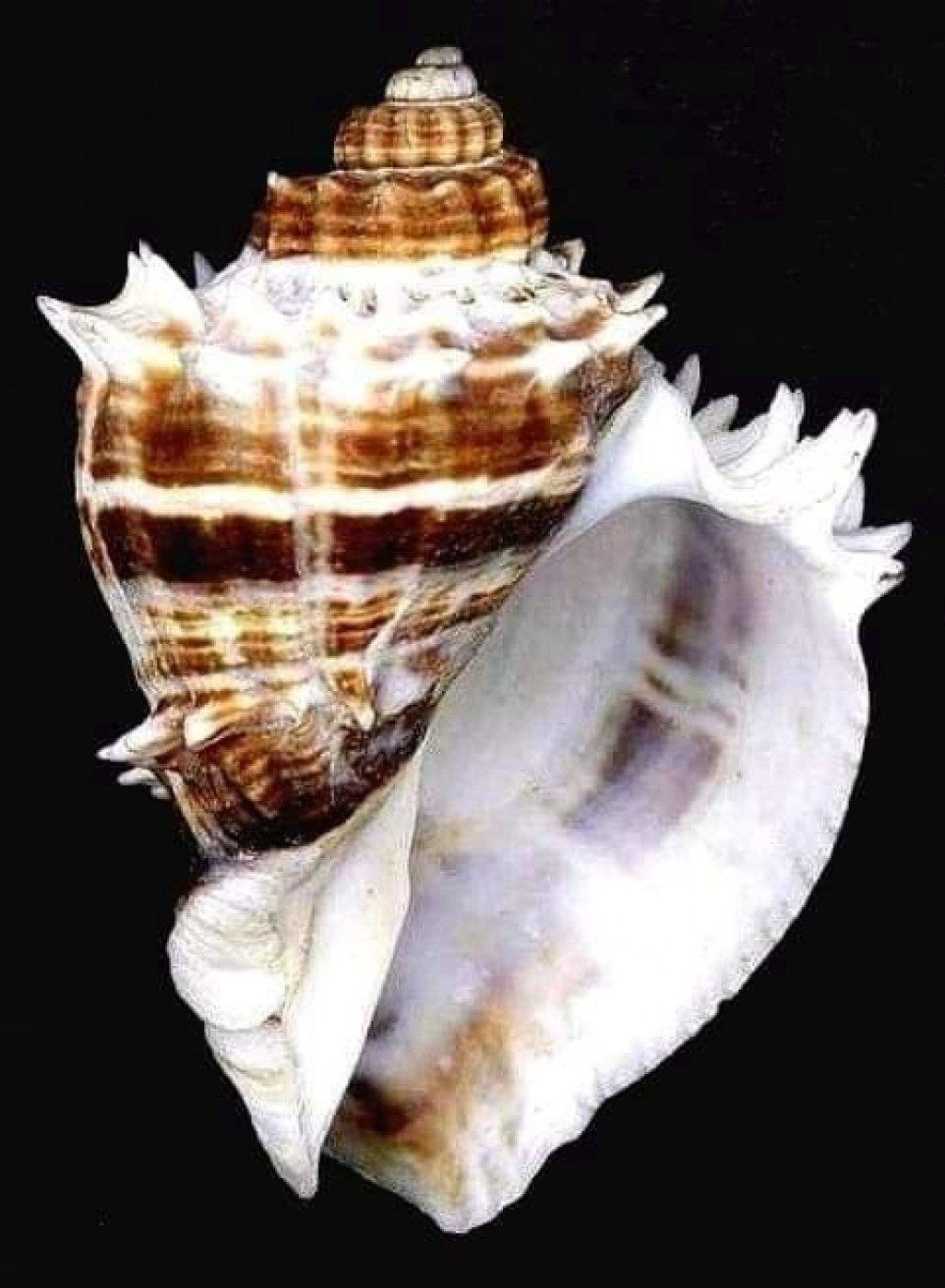 Underside view of the seashell of the species Melongena corona (Gmelin, 1791)[1]; from Florida to N. E. Mexico - Gulf of Mexico[2]. ABBOTT, R. Tucker; DANCE, S. Peter (1982). Compendium of Seashells. A color Guide to More than 4.200 of the World's Marine Shells. New York: E. P. Dutton. p. 175. 412 pp. ISBN 0-525-93269-0